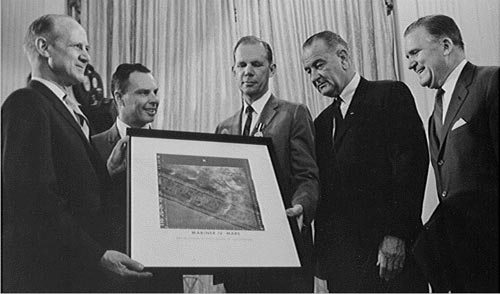 In July 1965, at a White House ceremony, President Lyndon B. Johnson was presented with a copy of Mariner 4's famous picture Number 11, which revealed large impact craters and other topographical features of Mars. From left are Dr. William H. Pickering, Director of JPL; Oran Nicks, NASA's Director of Lunar and Planetary Programs; Jack N. James, JPL's Mariner 4 Project Manager; President Johnson; and James Webb, NASA Administrator.